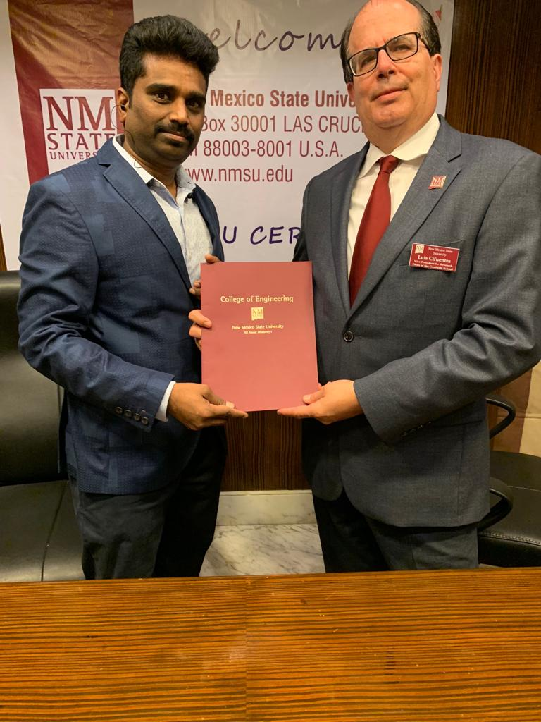 NEC, Vice Chairman Mr. M Chakravarthi Signing MOU with New Mexico State University